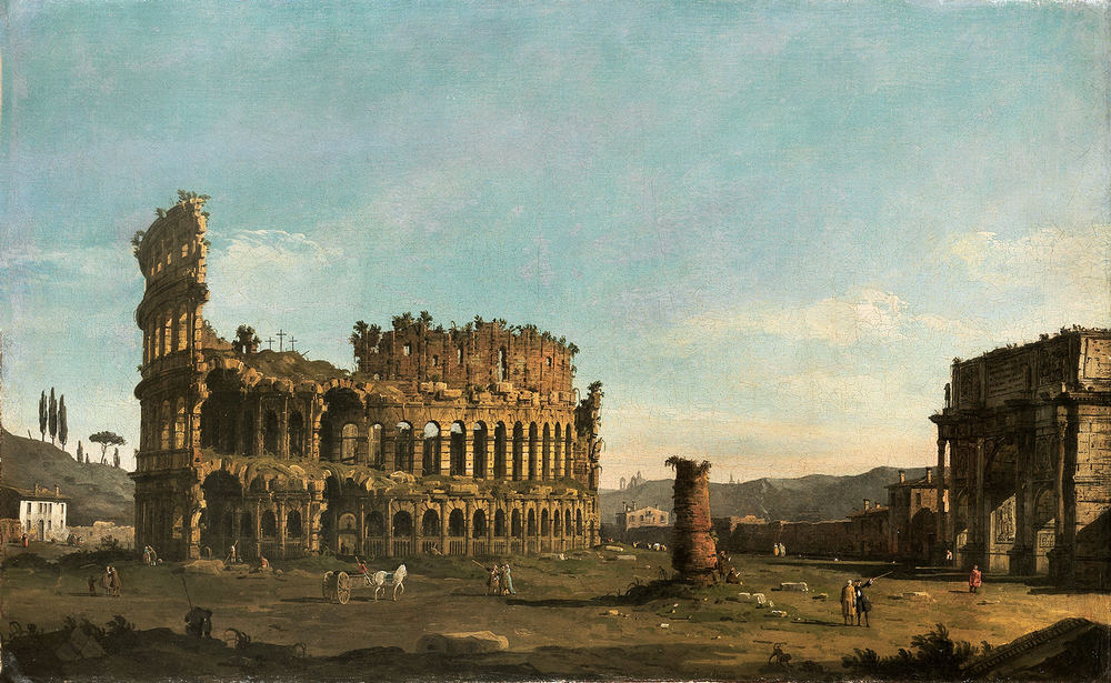 Rome, Colosseum and Arch of Constantine